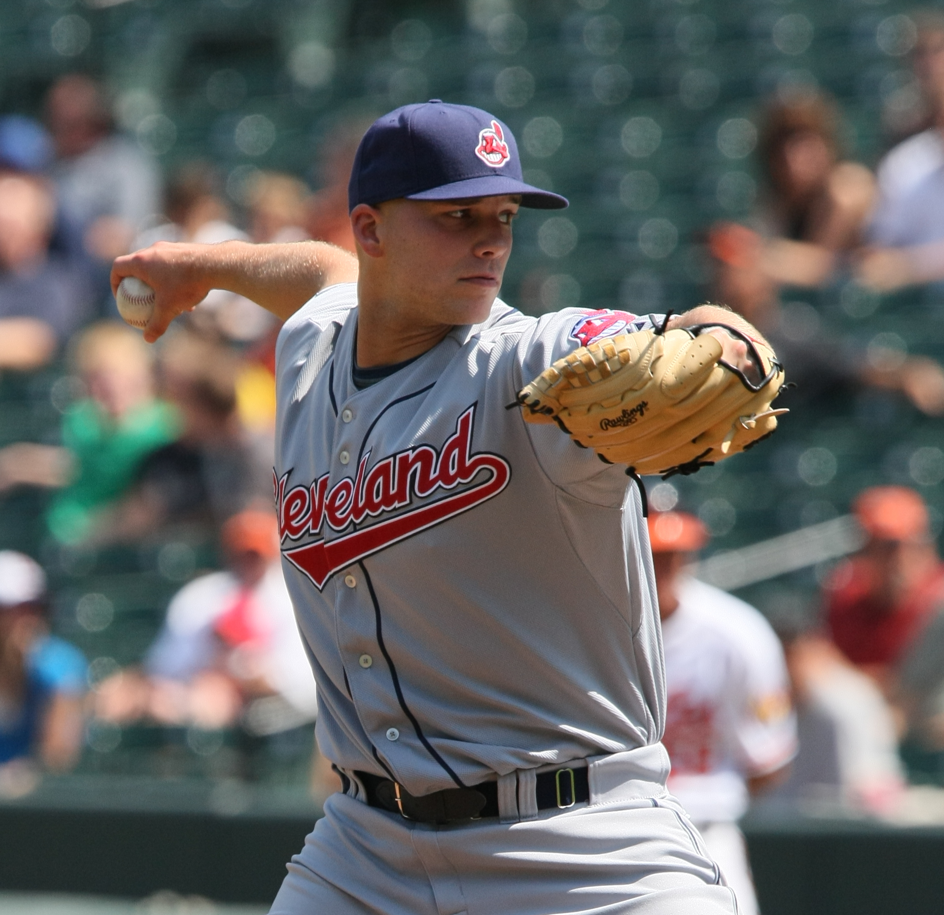 Justin Masterson